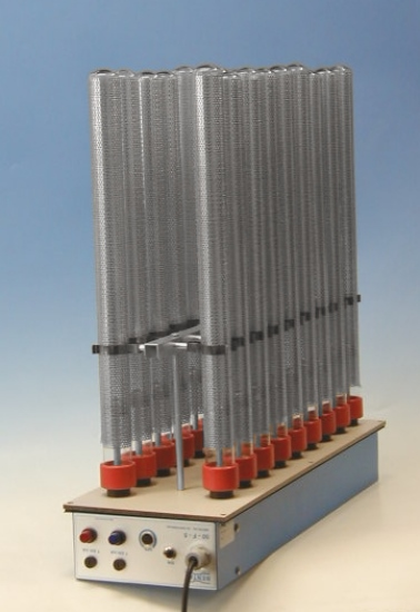 An air ionizer generator for air treatment with 15 installed ionization tubes.